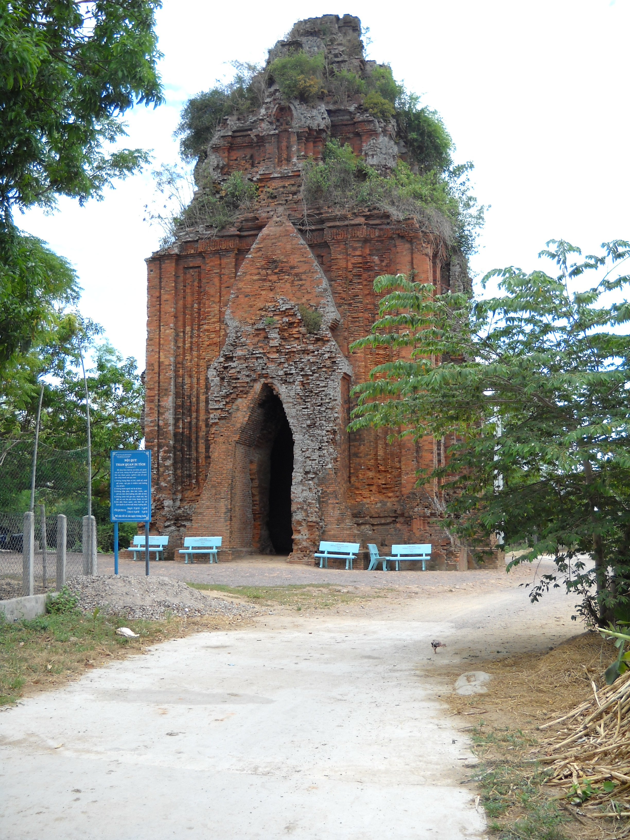 Cham tower Binh Lam in Tuy Phong District, Binh Dinh Province, Vietnam